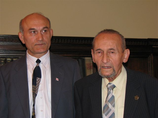 Зянон Пазняк (Zianon Pazniak, b. 1944), Belarusian politician and public activist and Jerzy Litwiniuk (b. 1923), Polish translator and poet